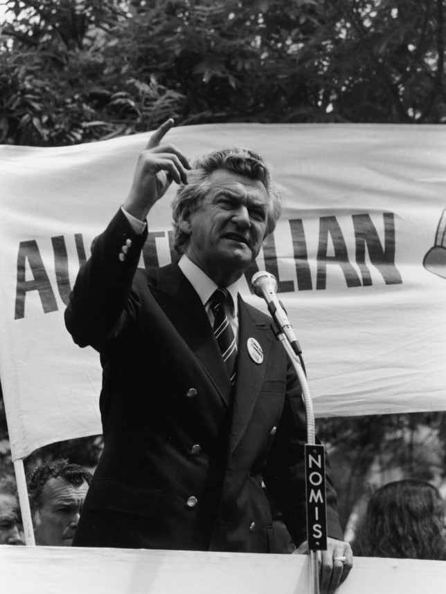 Bob Hawke, Labor spokesman on industrial affairs and ACTU president, emphasises a point as he addresses a crowd at Victoria Square after leading the Labour Day procession down King William Street on Saturday, 11th October 1980. Photographer Jenny Scott.